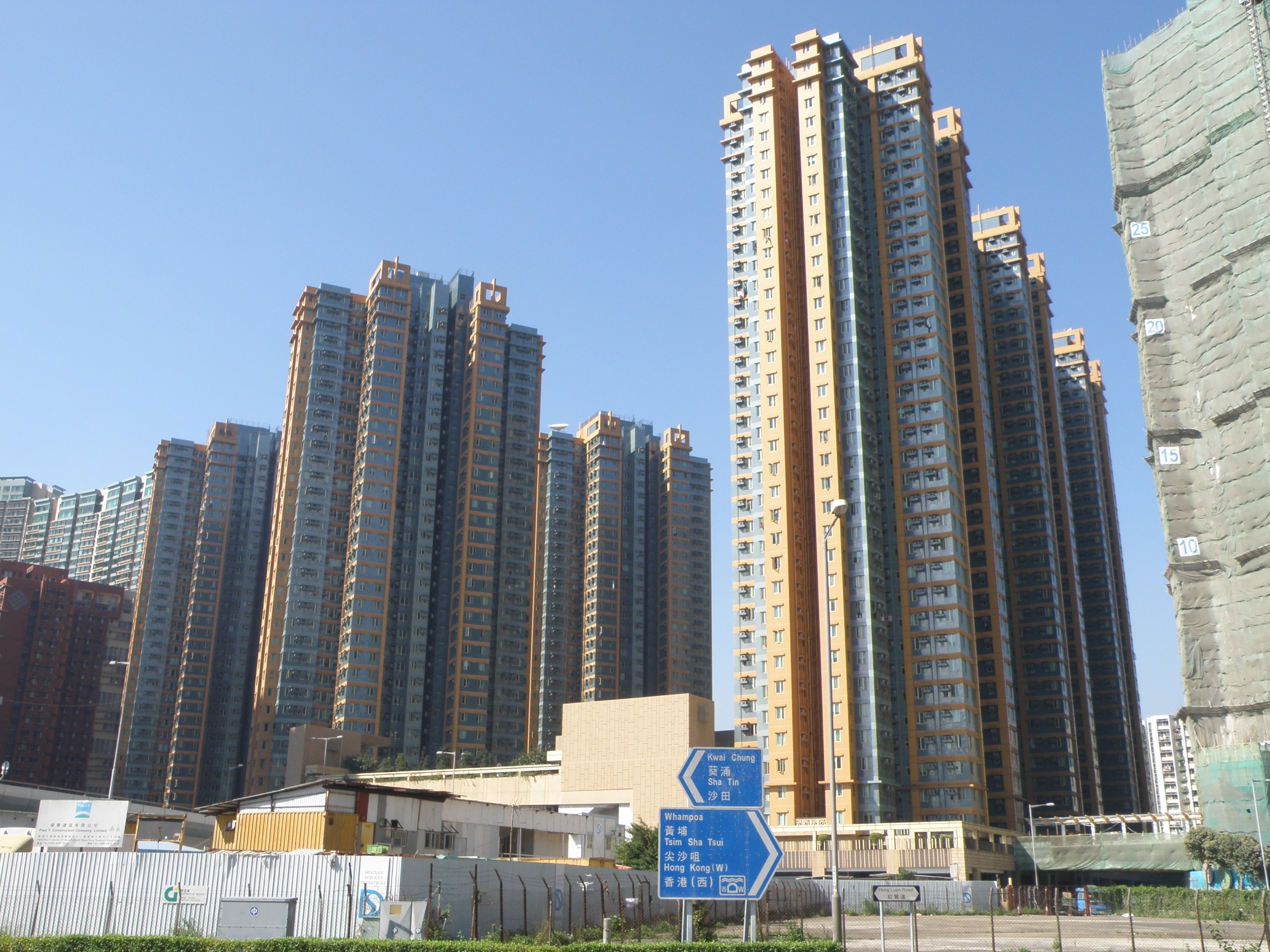 Harbour Place in Hung Hom, Hong Kong.